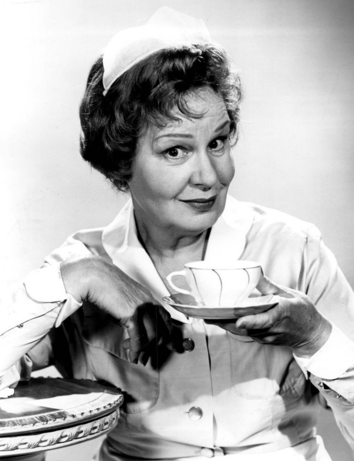 Photo of Shirley Booth as the title character from the television program Hazel.